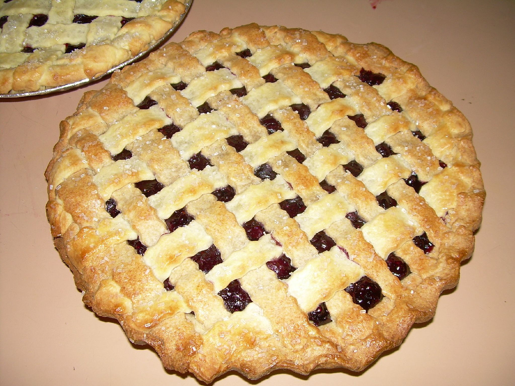 Tarte des Alpes a blueberry pie with a lattice top